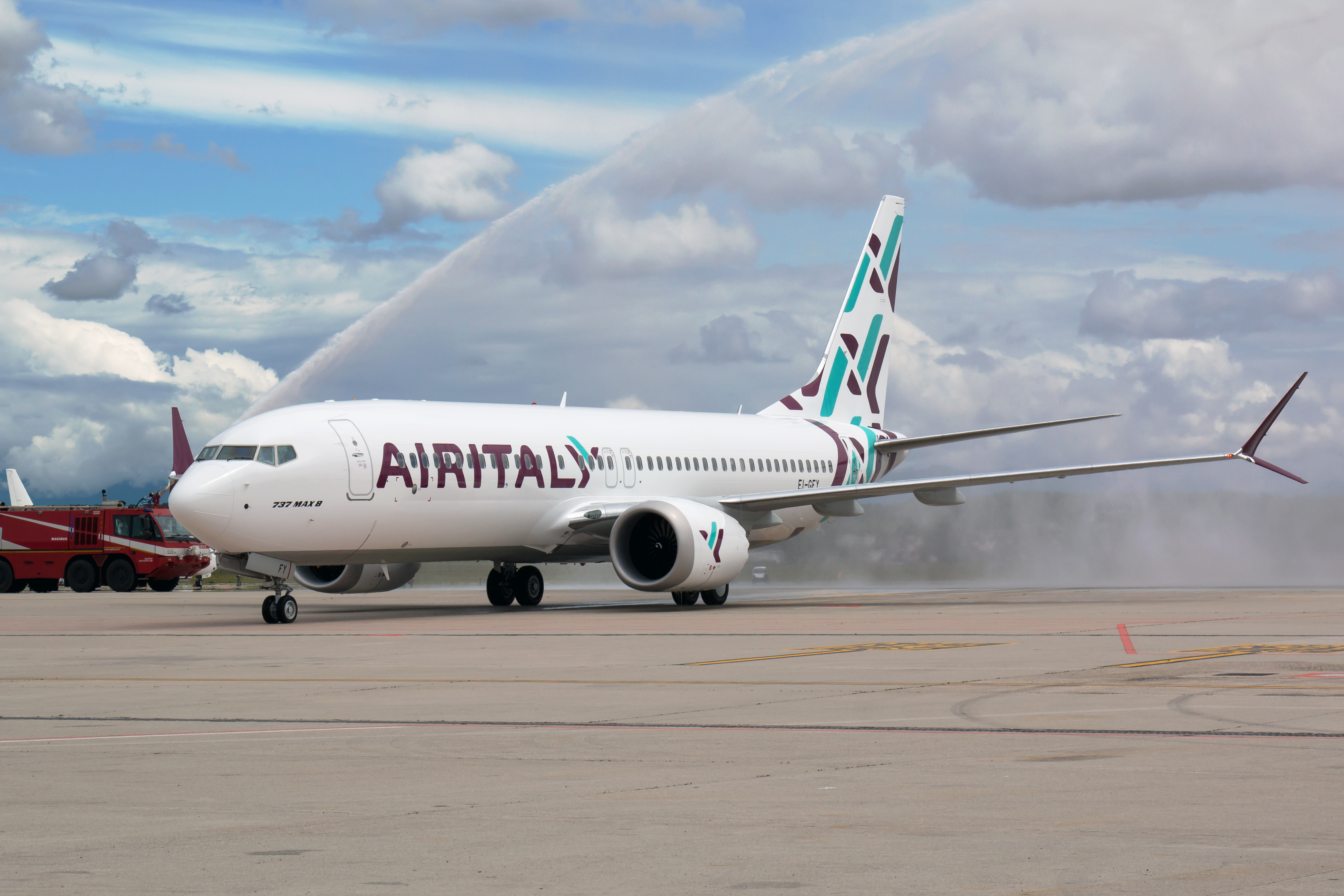 Delivery flight of the first Air Italy Max 8, becoming the first Italian company which operates this type of aircraft